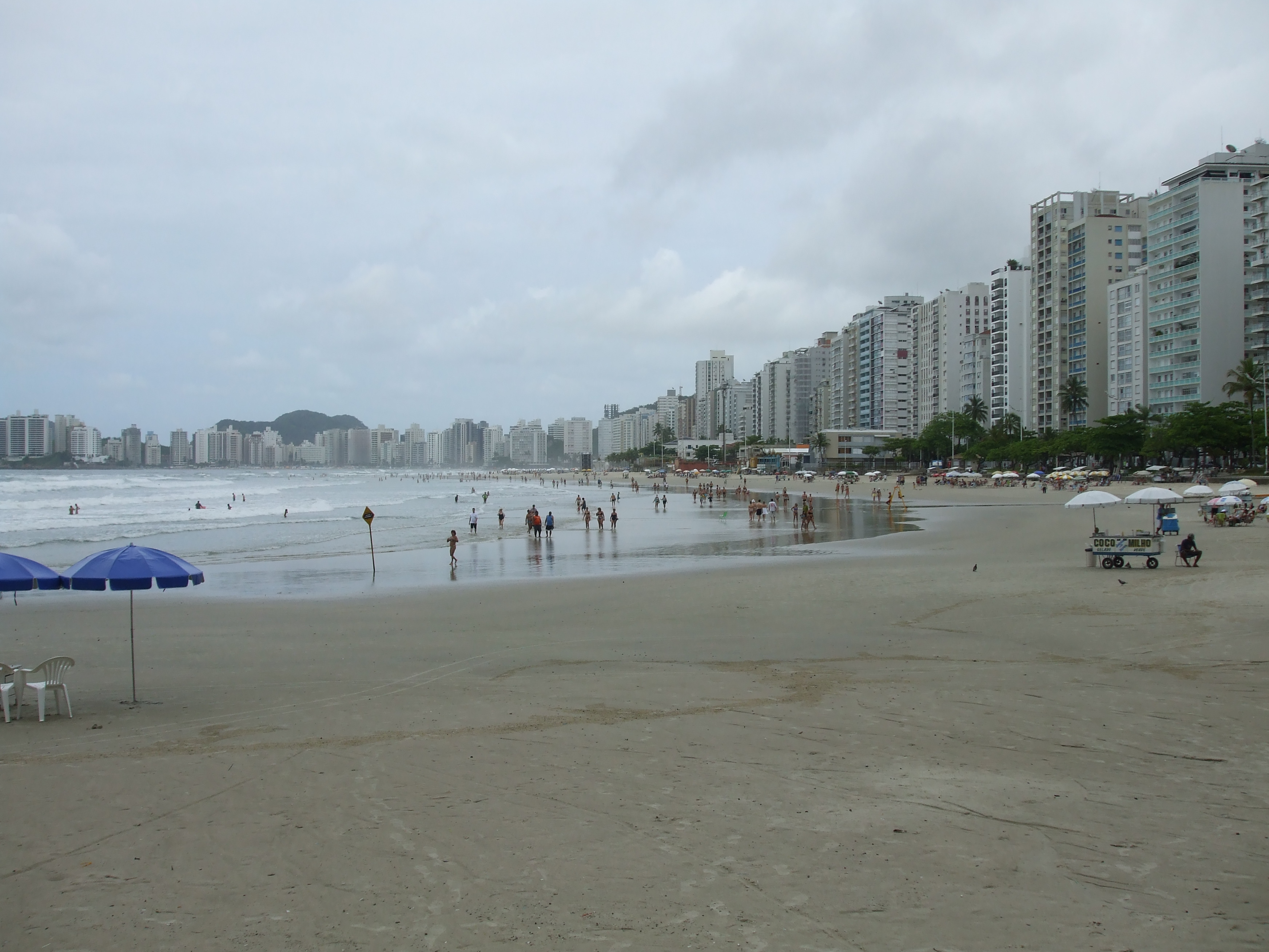 Pitangueiras Beach, Guaruja